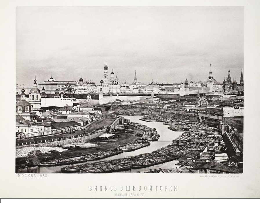 View from Vshivaya slide (in the direction of the Kremlin).